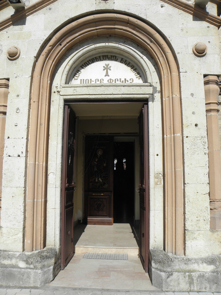 Armenian church in Batumi, Georgia.